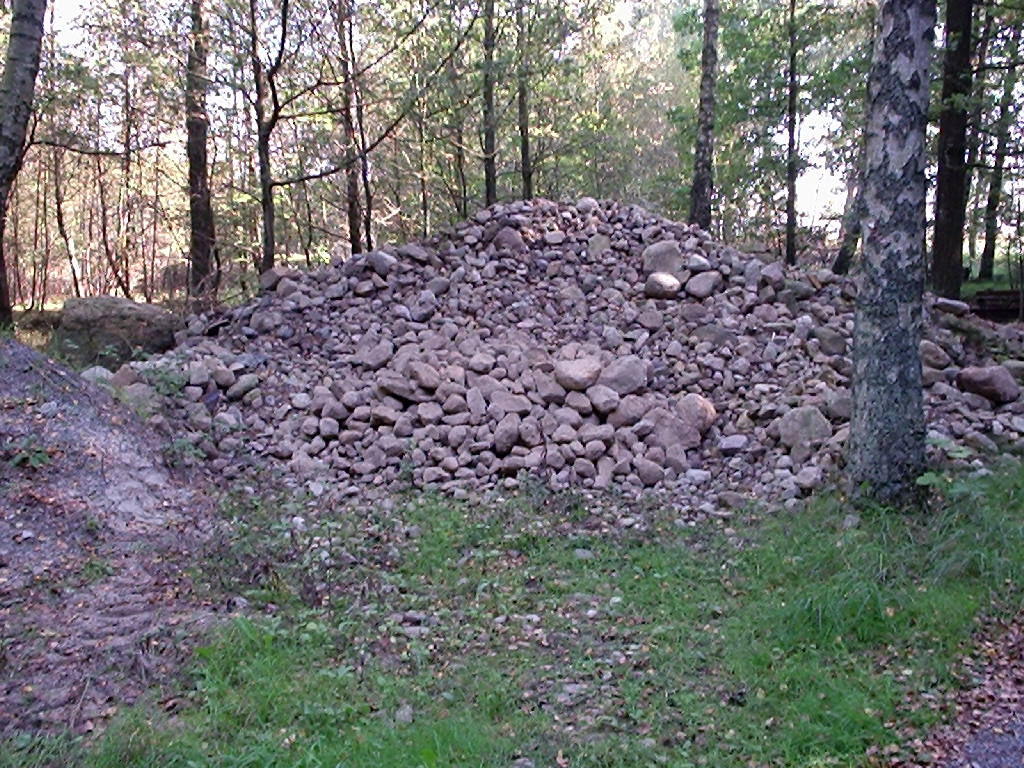 Stones picked up in fields around Østerlars, a village on Bornholm, Denmark